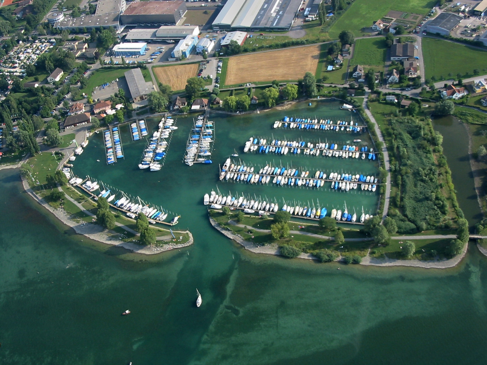 Switzerland, Thurgau, impressions of a flight with airship D-LZZR